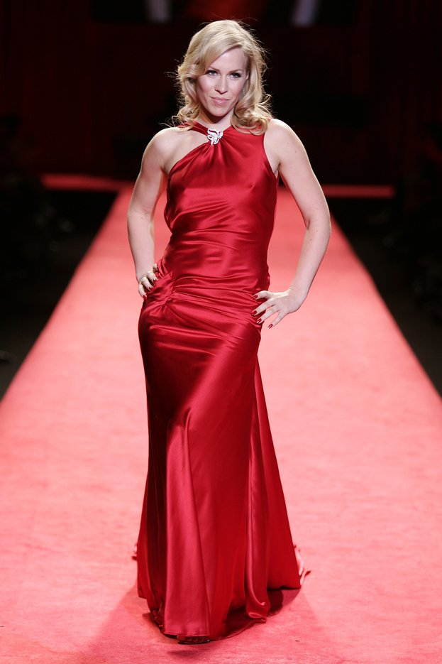 Natasha Bedingfield in the 2006 Red Dress Collection for the Heart Truth campaign